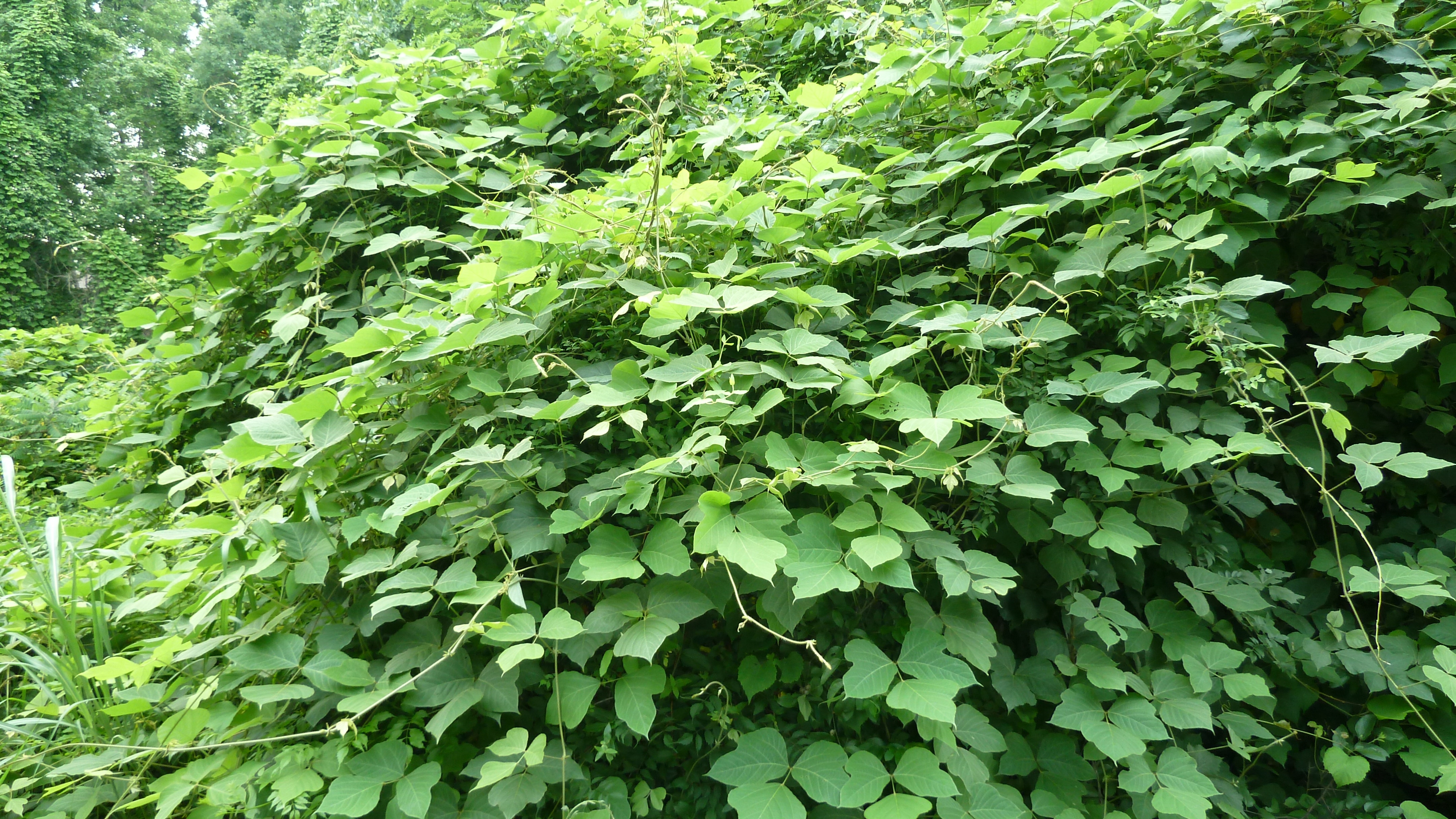 A clump of kudzu located in York County, South Carolina